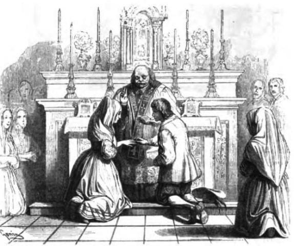 The most famous Italian historical romance,and the masterpiece of Alessandro Manzoni.